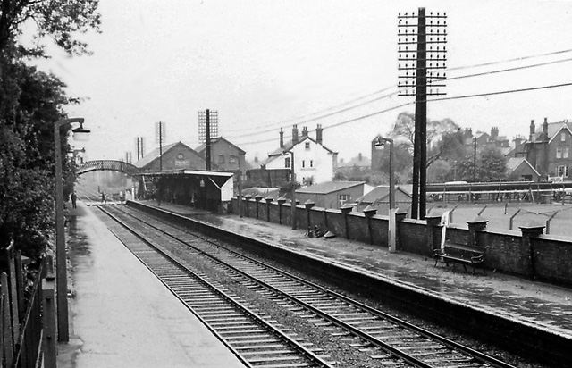 Beeston (Nottingham) Station. View NE, towards Nottingham (Midland); main line from Trent, Leicester and London (St Pancras) and Derby, also Chesterfield via Long Eaton.